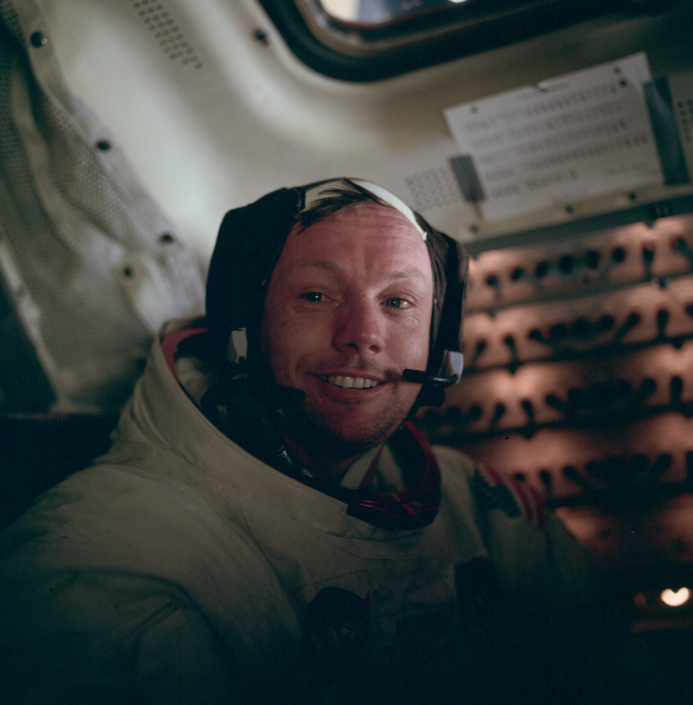 Apollo 11 astronaut Neil A. Armstrong poses for a photo inside the Lunar Module Eagle after the first trip on Moon.